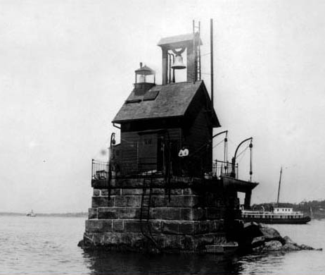 Undated photograph of first Musselbed Shoals Light